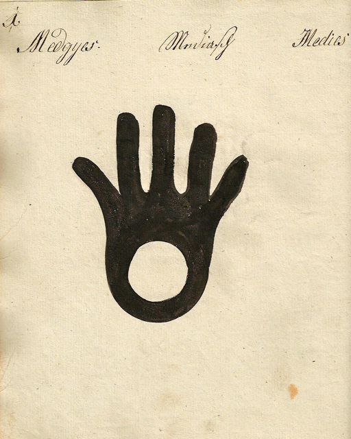 Cattle brand of Mediasch/Mediaș/Medgyes in Transylvania